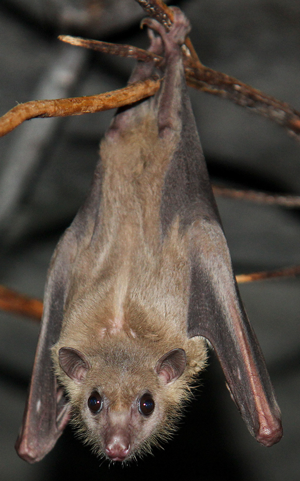 Lithuanian Zoological Gardens